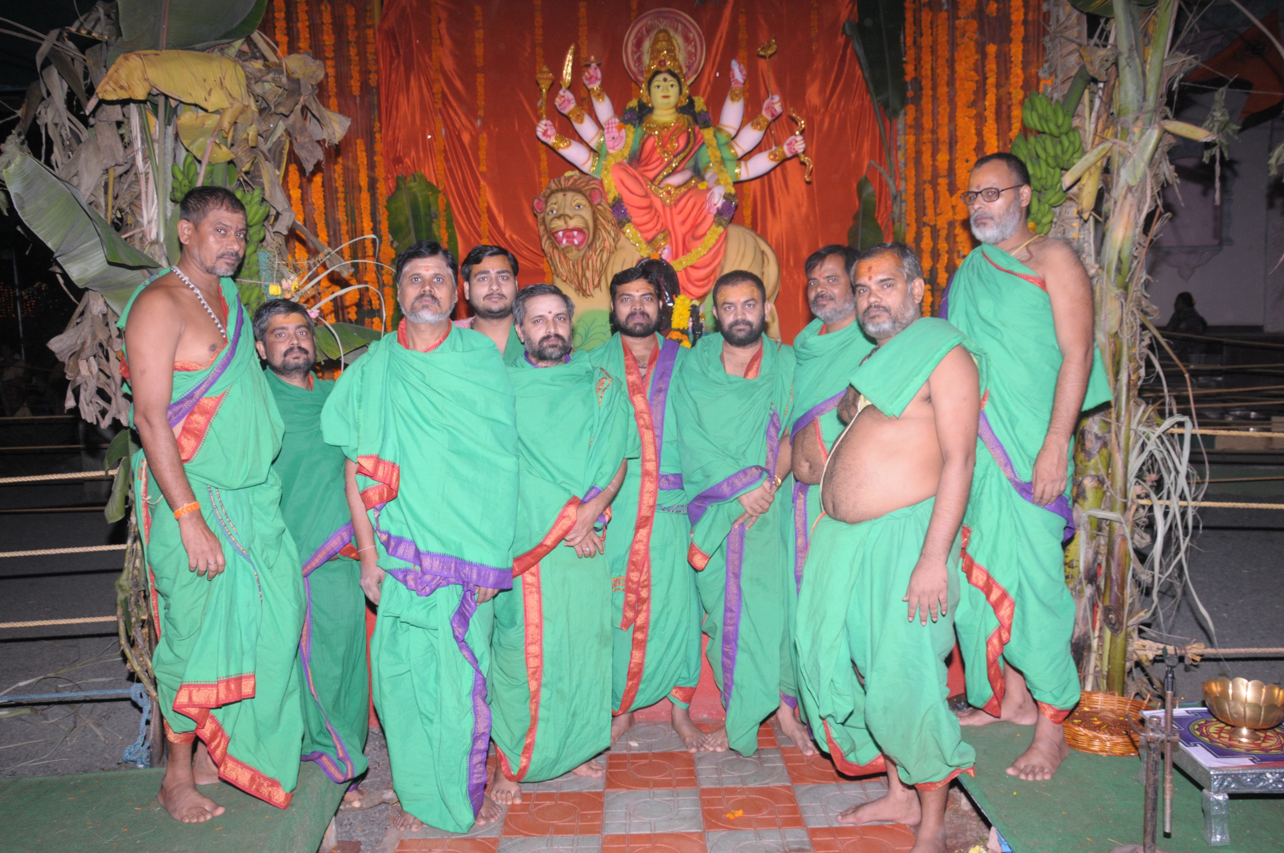 varanasi pandits at ahoratram